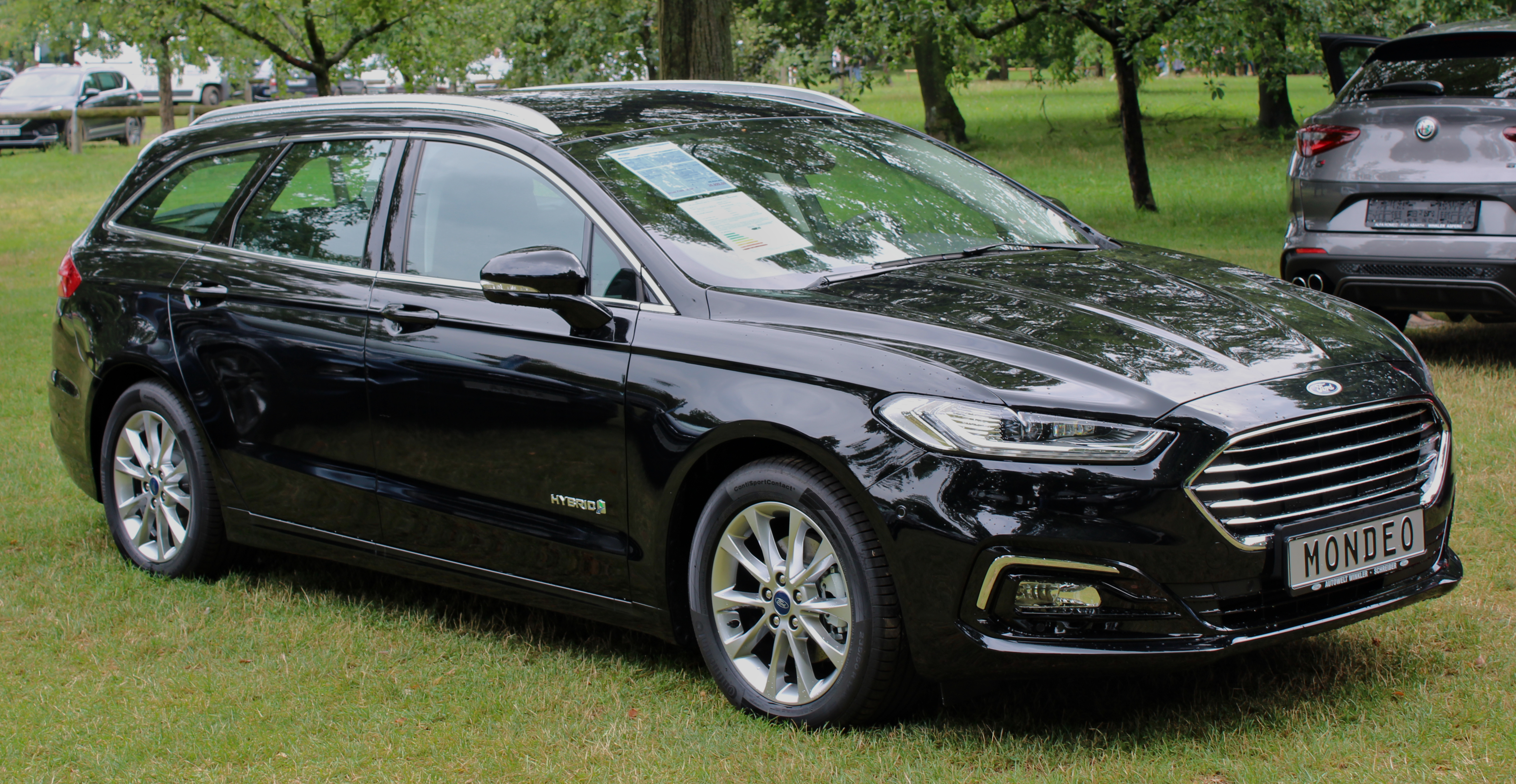 Ford Mondeo Turnier Hybrid at Schloss Monrepos 2019